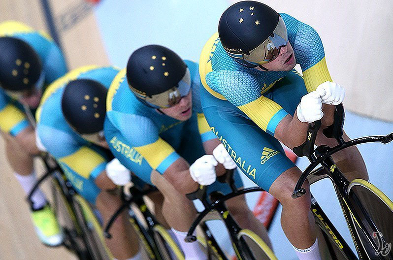 Track cyclists from Australia at the 2016 Summer Olympics